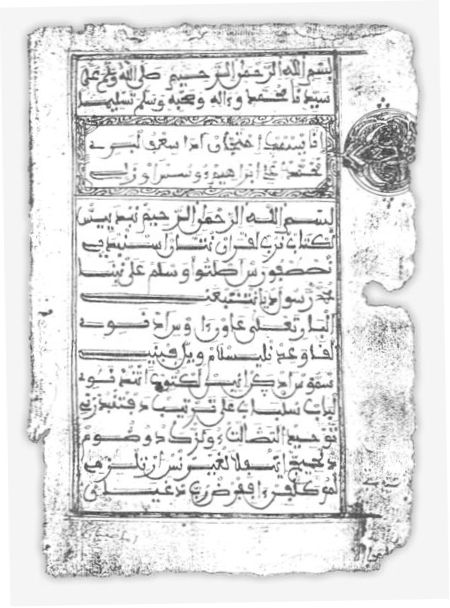 Photocopy of the first page of a manuscript of Muḥammad in 'Alī Awzal, al-Ḥawd part I, Leiden MS Or. 23.354. Original size of written area 180 x 110 mm. Adapted from N van den Boogert (1997) Berber Literary Tradition of the Sous, Plate 1.